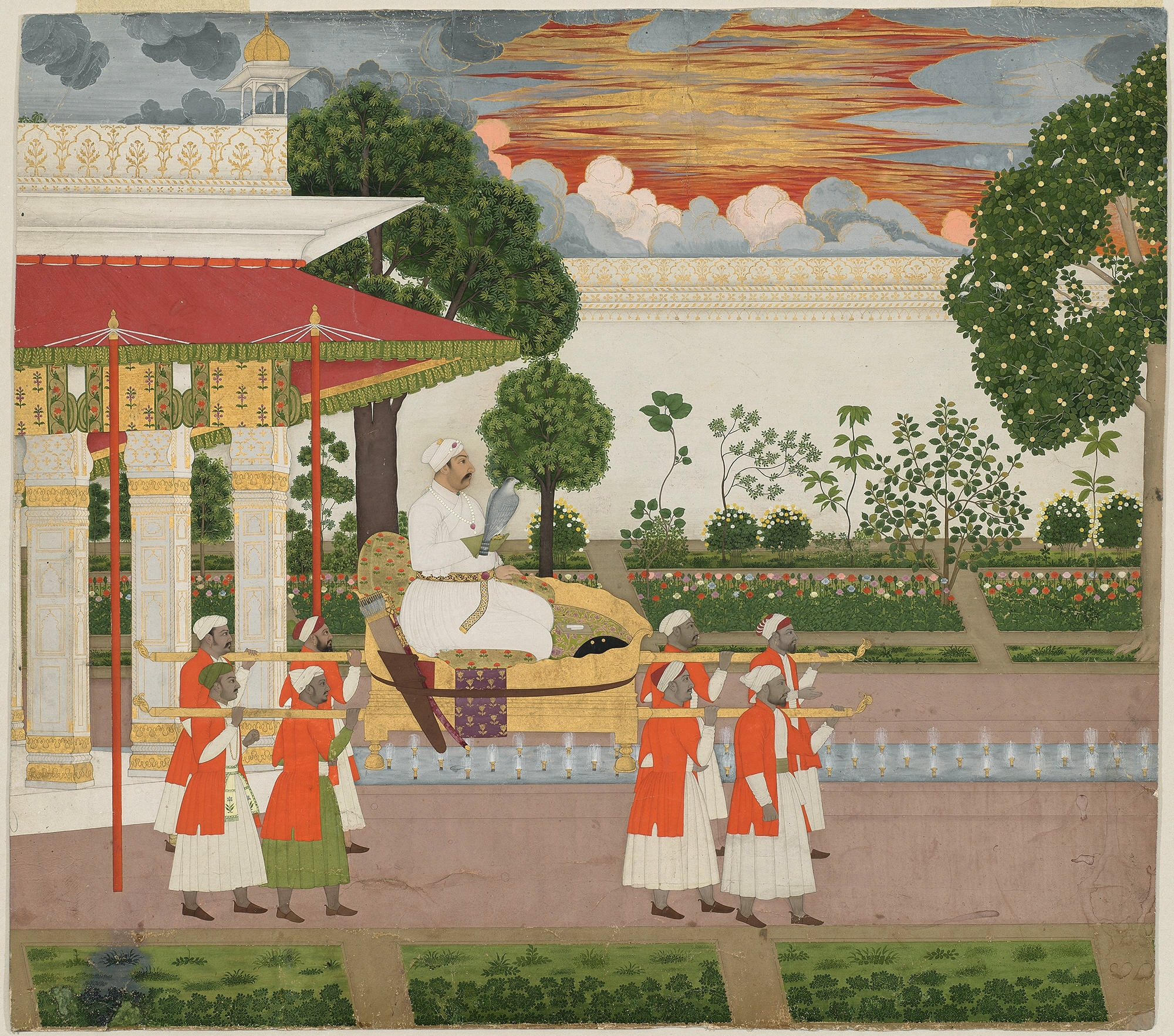 Chitarman II, Emperor Muhammad Shah with Falcon Viewing his Garden at Sunset from a Palanquin ca 1730 Metmuseum